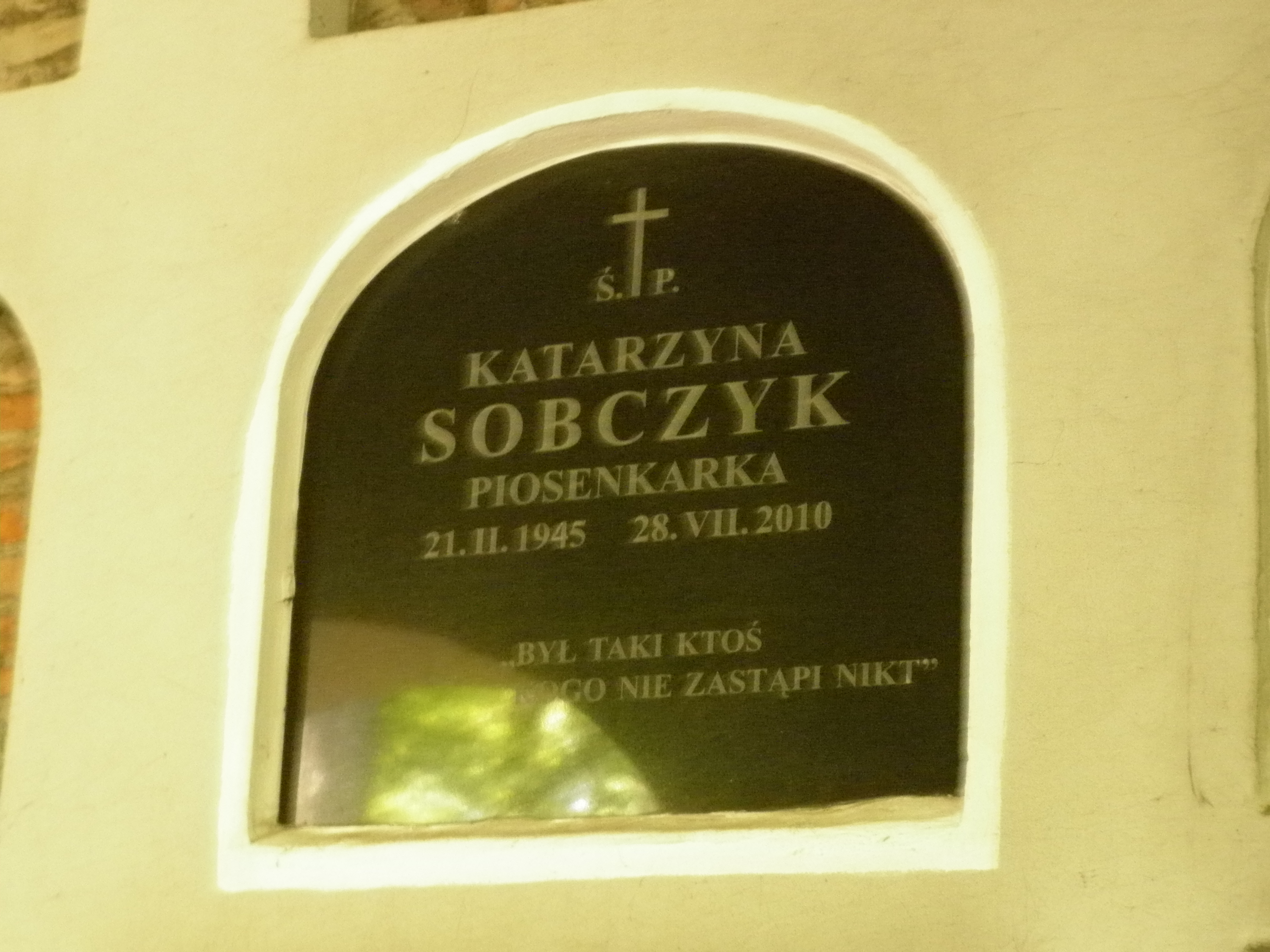 Kasia Sobczyk tomb in Old Powązki